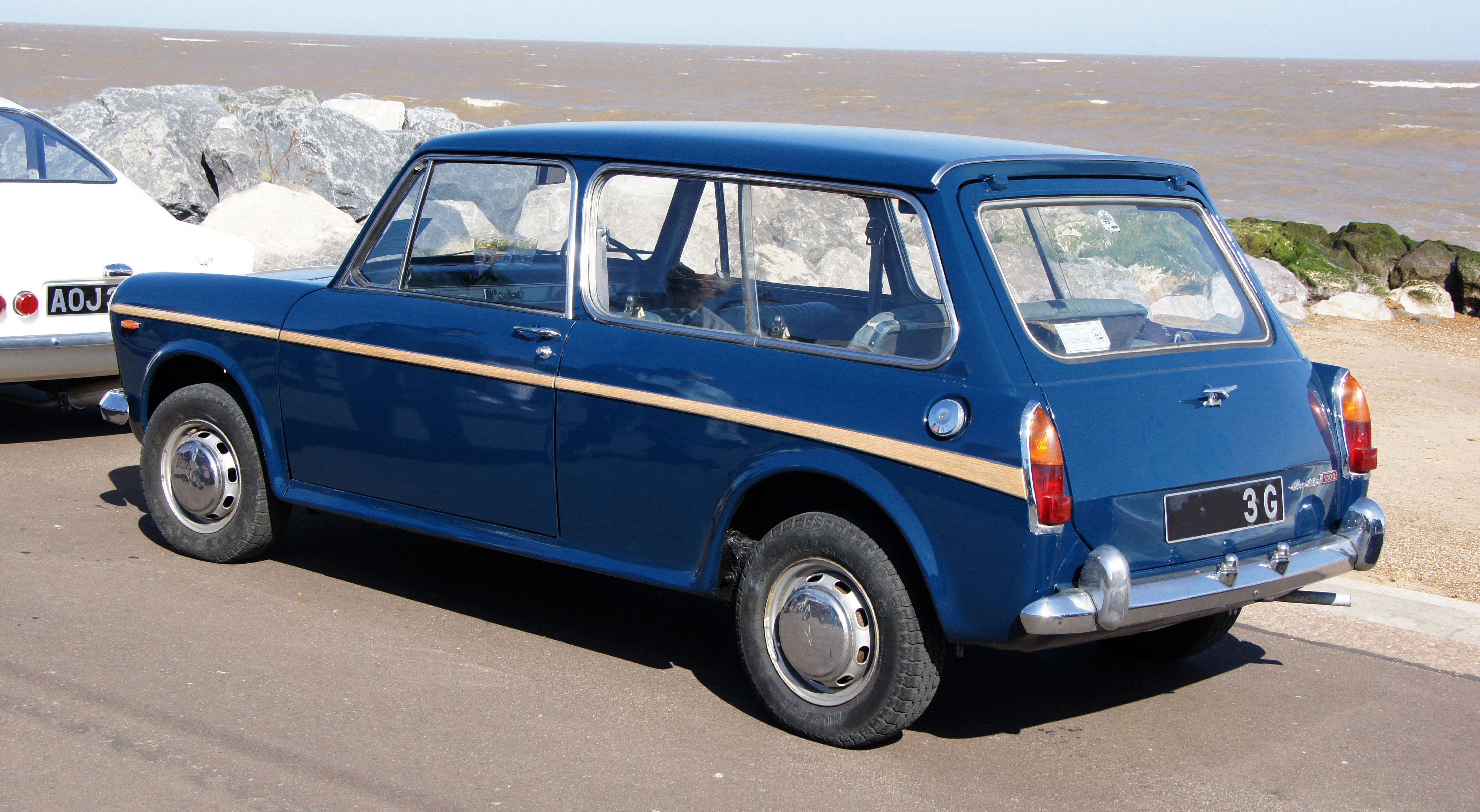 Austin 1300 Countryman in Felixstowe